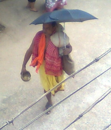 traditional beggar tribe in coastal Odishaଓଡ଼ିଆ: ନିଜ ପାରମ୍ପରିକ ପୋଷାକରେ ଚକୁଳିଆ ପଣ୍ଡା ।